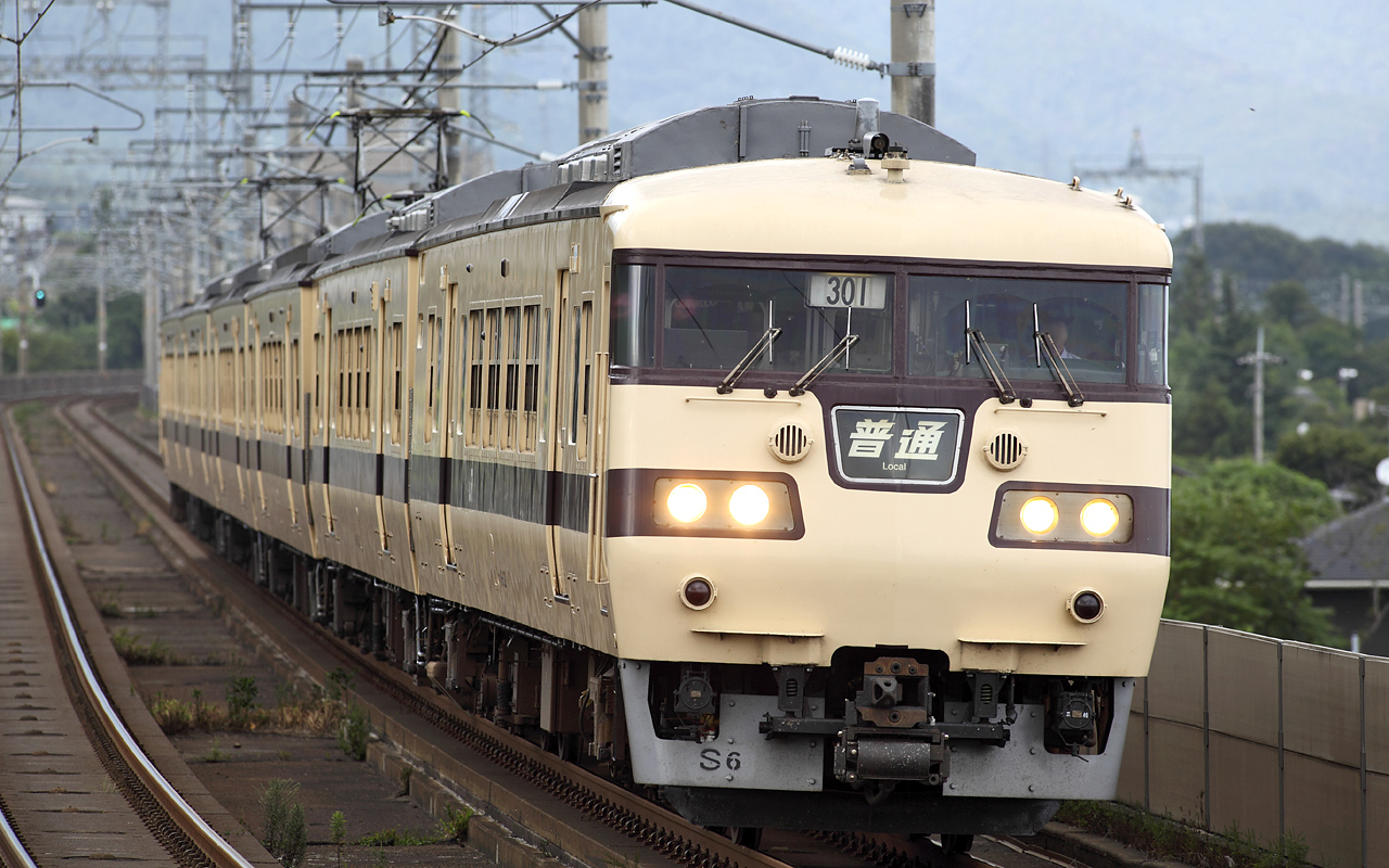 JNR 117 series EMU belongs to the JR West, at Hōrai Sta.